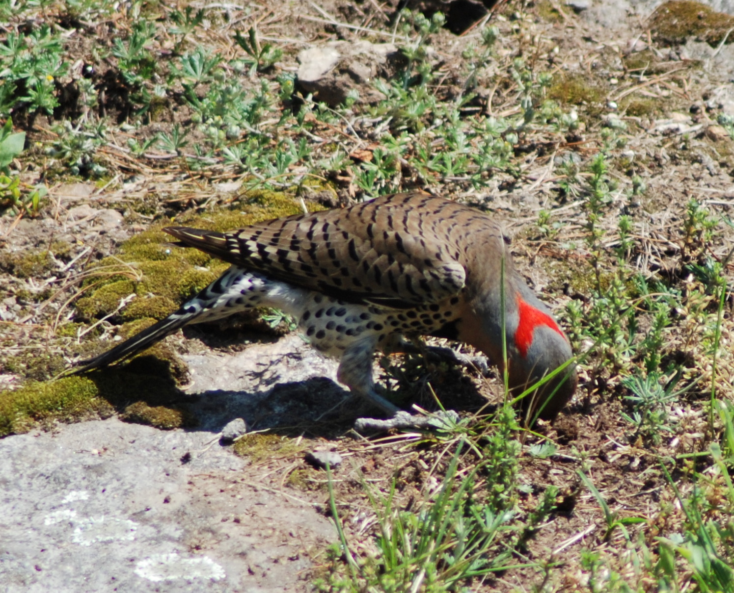 He positions himself as he would on a tree with his feet out and tail on the ground.